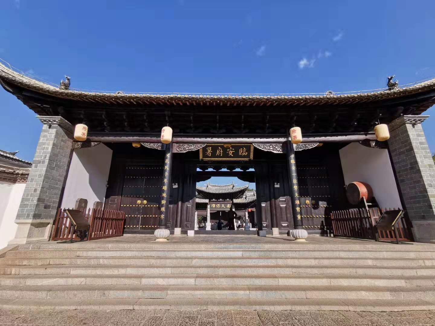 "Lin'an Prefecture" (Ming and Qing dynasties) restored, Jianshui, Yunnan, China.